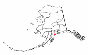 Adapted from Wikipedia's AK borough maps by Seth Ilys.